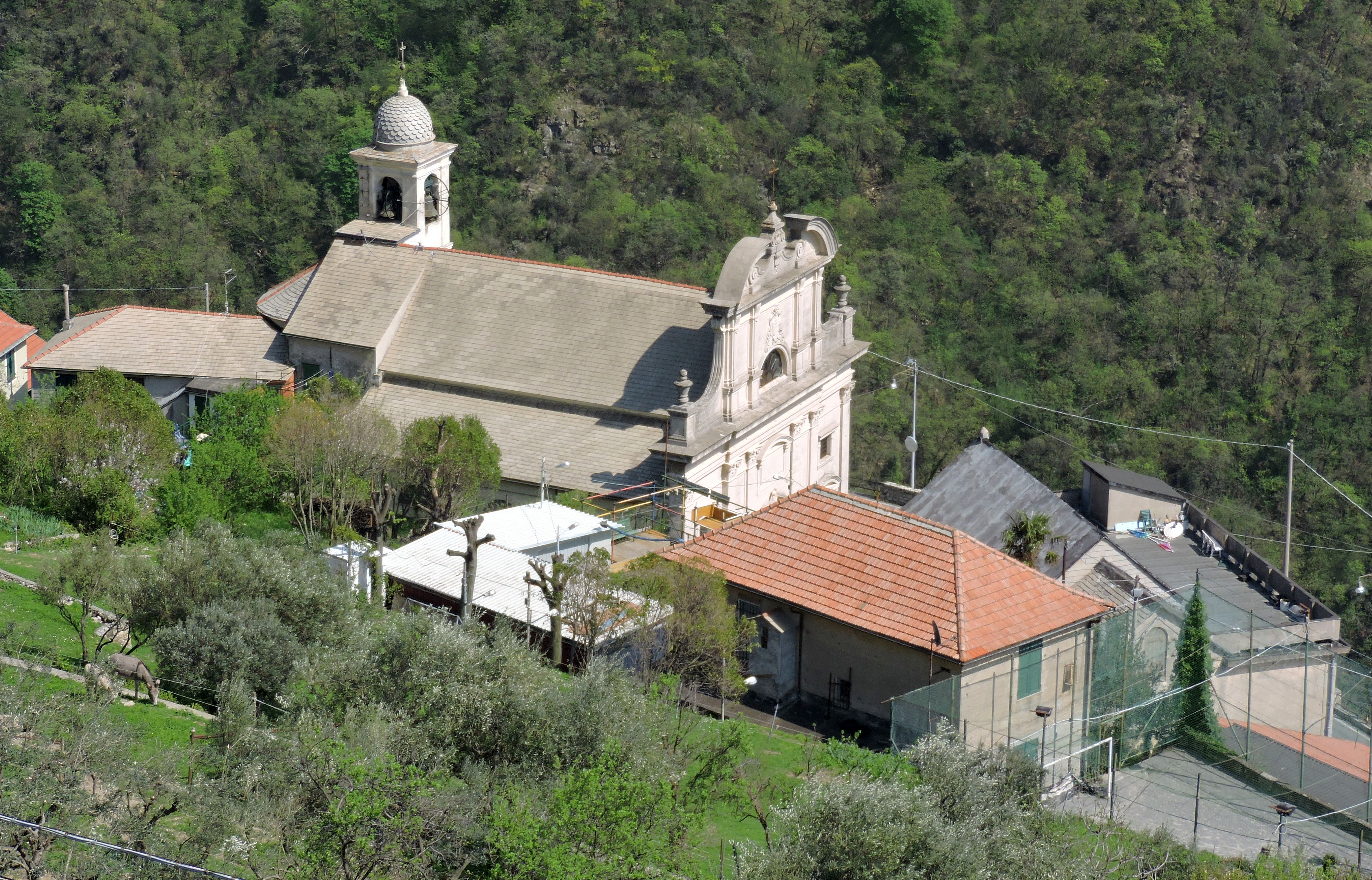 Aggio (Genova, Italy): Saint John the Baptist's church parish church